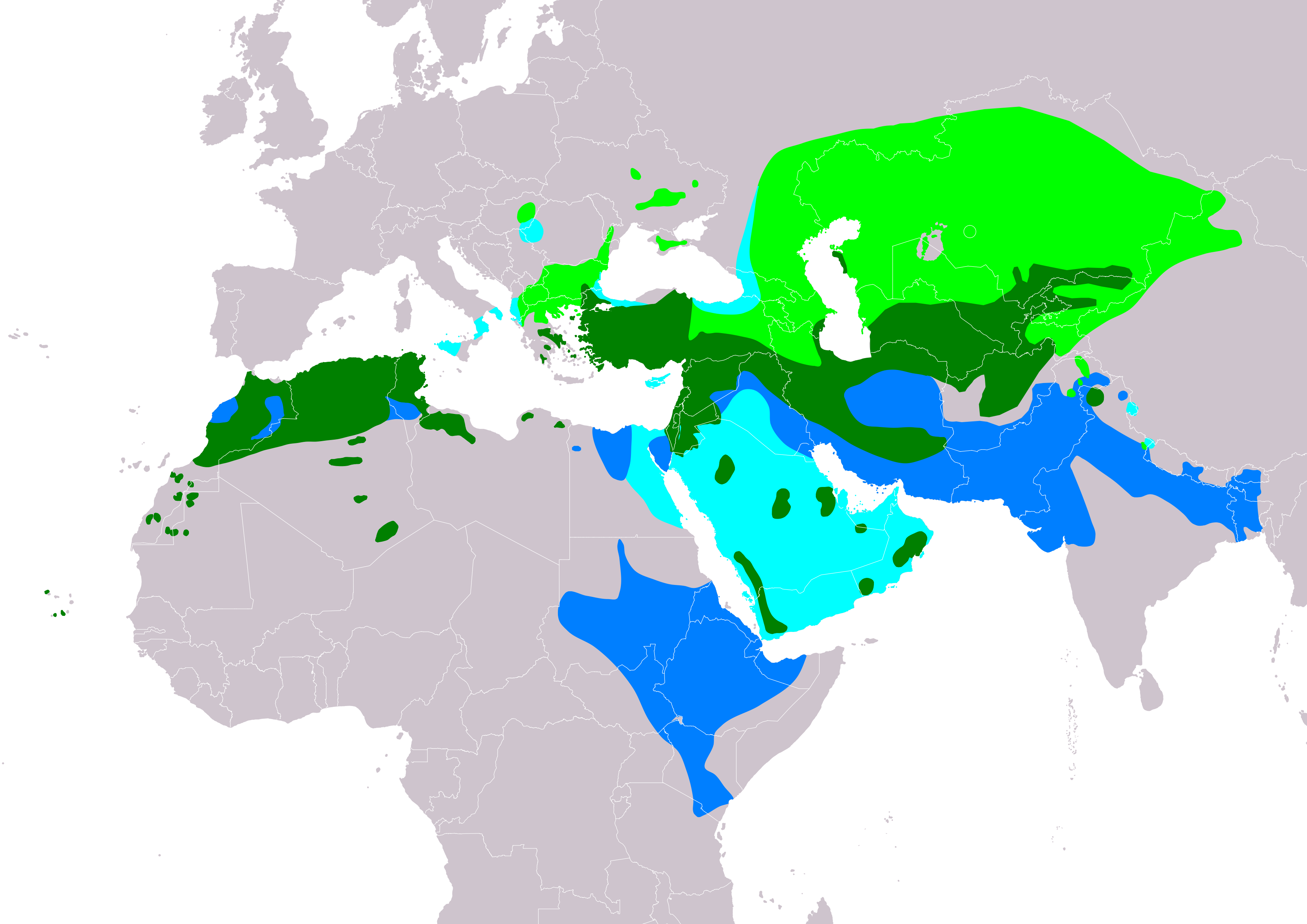 Distribution map of long-legged buzzard (Buteo rufinus) according to IUCN 2019-2 ; key: Legend: Extant, breeding (#00FF00), Extant, resident (#008000), Extant, passage (#00FFFF), Extant, non-breeding (#007FFF)